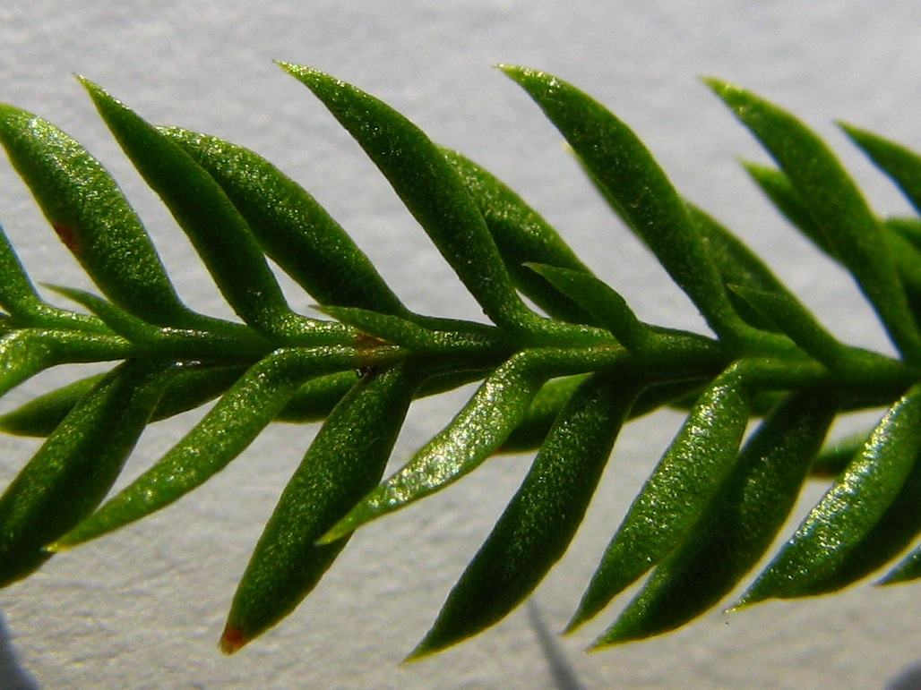 Closeup of underside of a lateral branch of Lycopodium obscurum. Set against white paper for contrast.